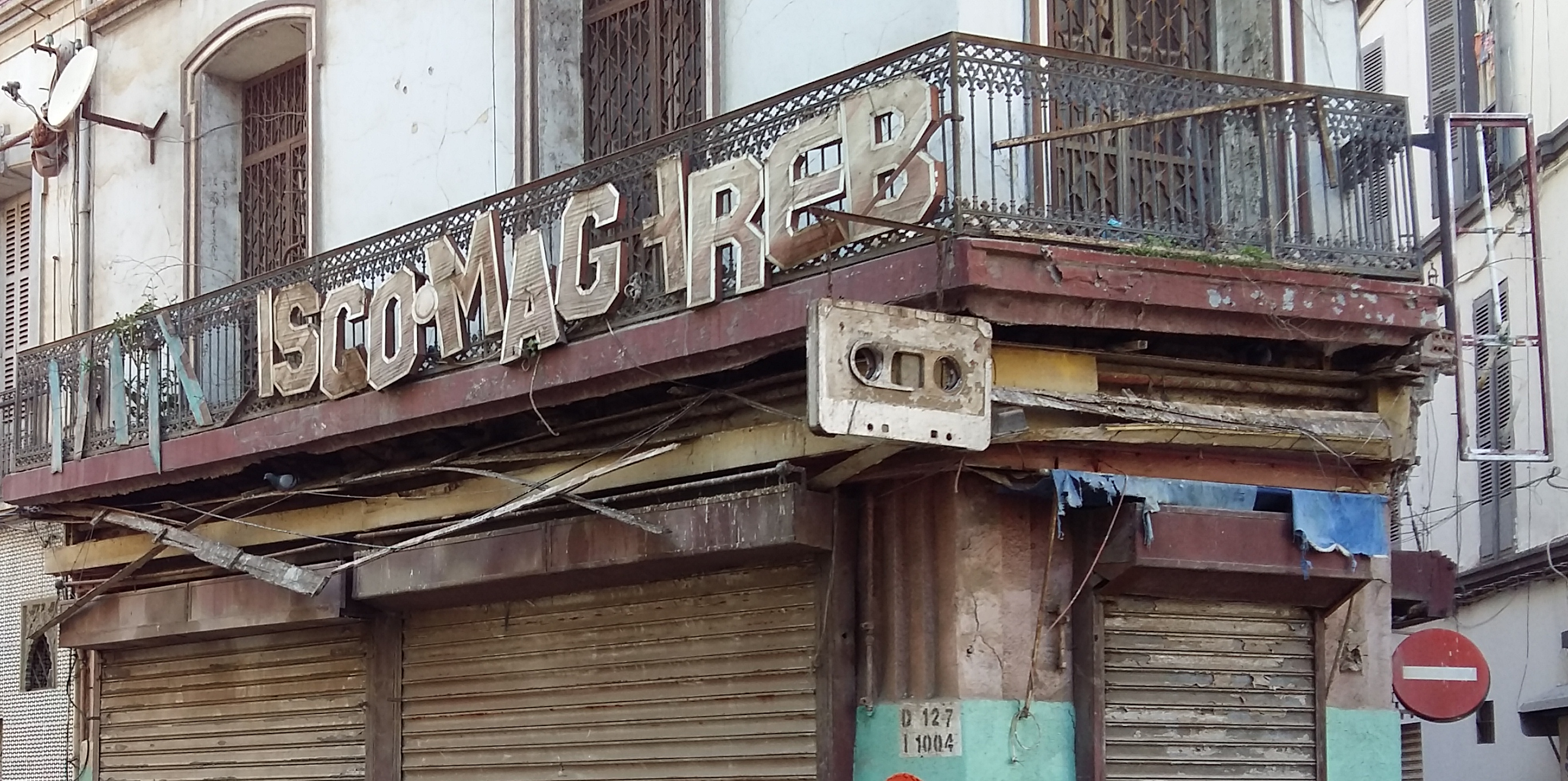 The ruins of the former record & cassette store "Disco Maghreb" in Oran, Algeria